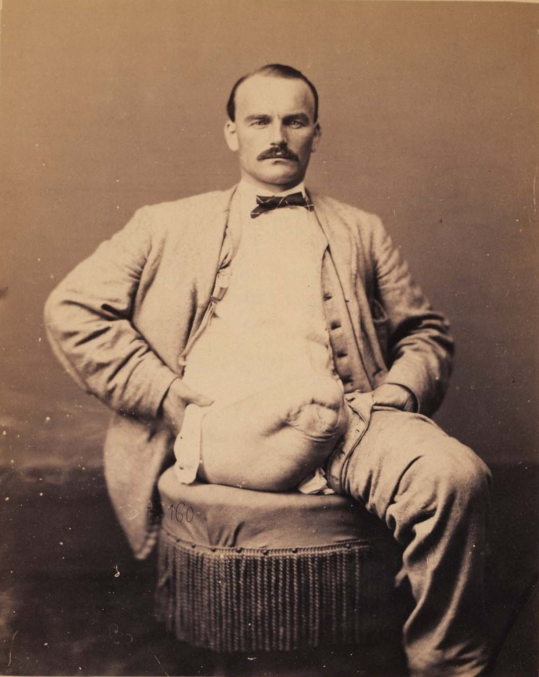 Private Charles Myer, Amputation of the Right Thigh, a photograph by U.S. Army medical photographer William Bell (1830–1910) showing a leg amputee.